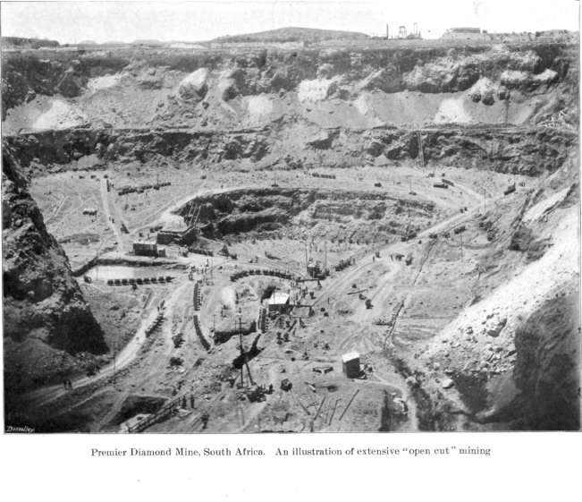 Open pit mining of the Premier Mine, South Africa, before 1903.